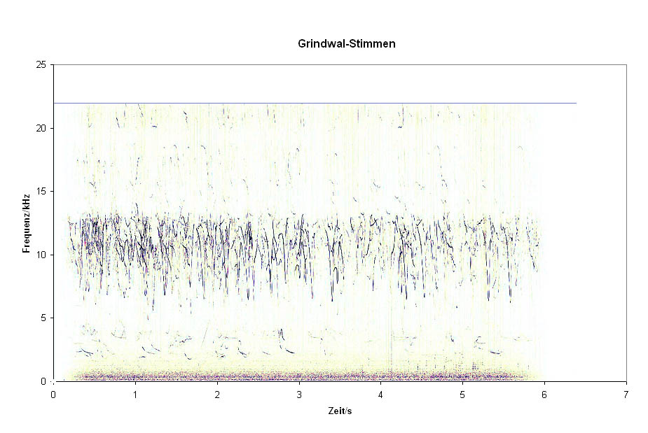 Time-frequency-diagramm of the sound of long finned pilot whales